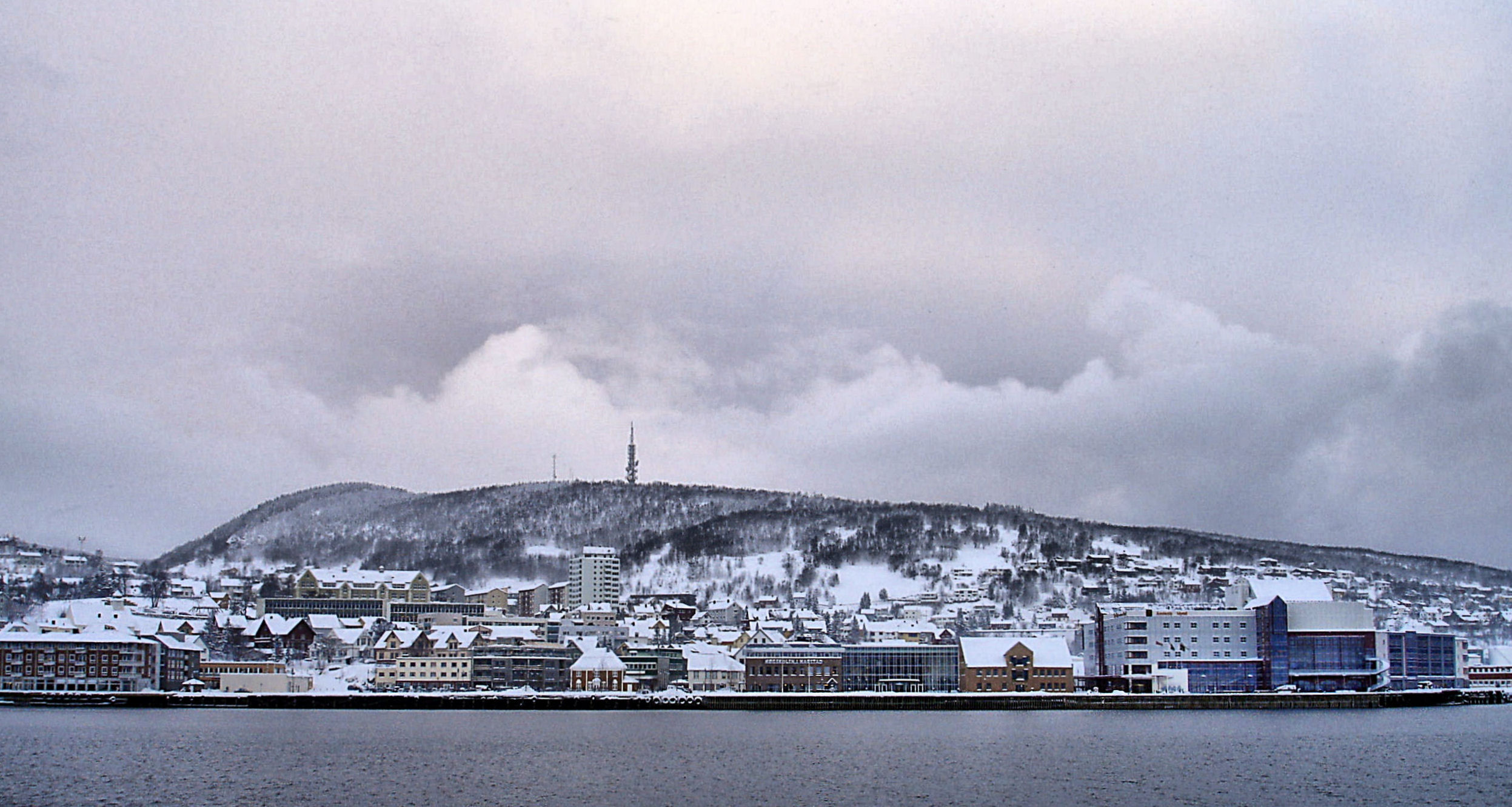 Harstad, Norway. Winter 2005-2006